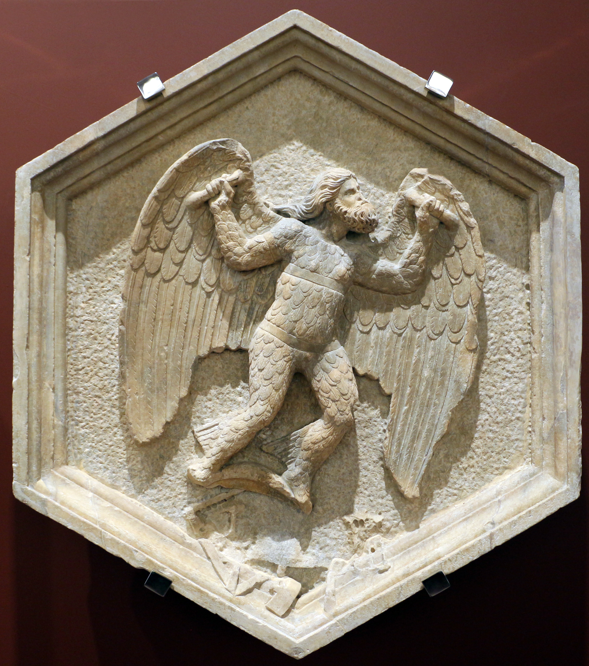 Reliefs of the Giotto's Belltower